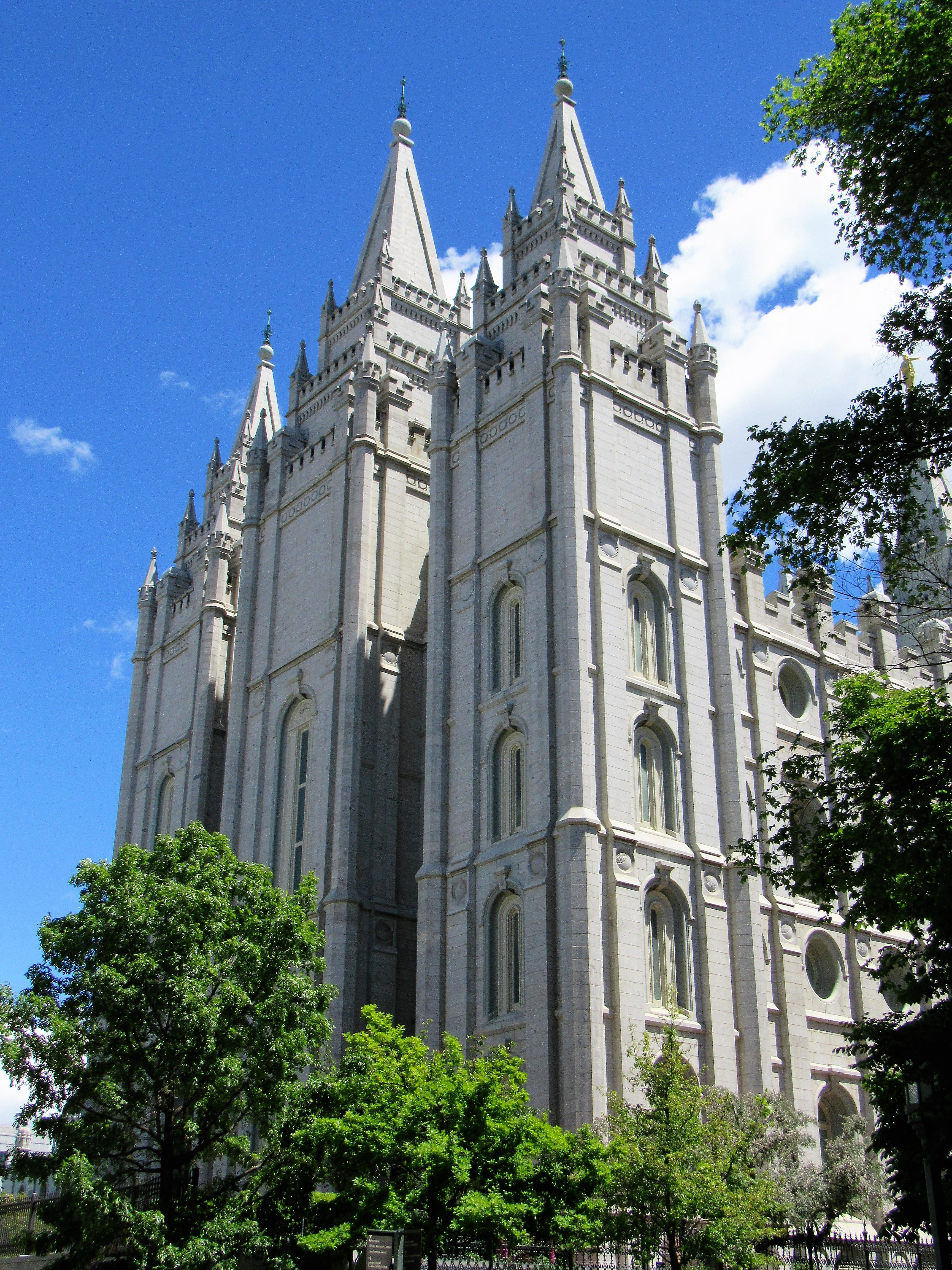 The Salt Lake Temple of the Church of Jesus Christ of Latter-day Saints in Salt Lake City, Utah.